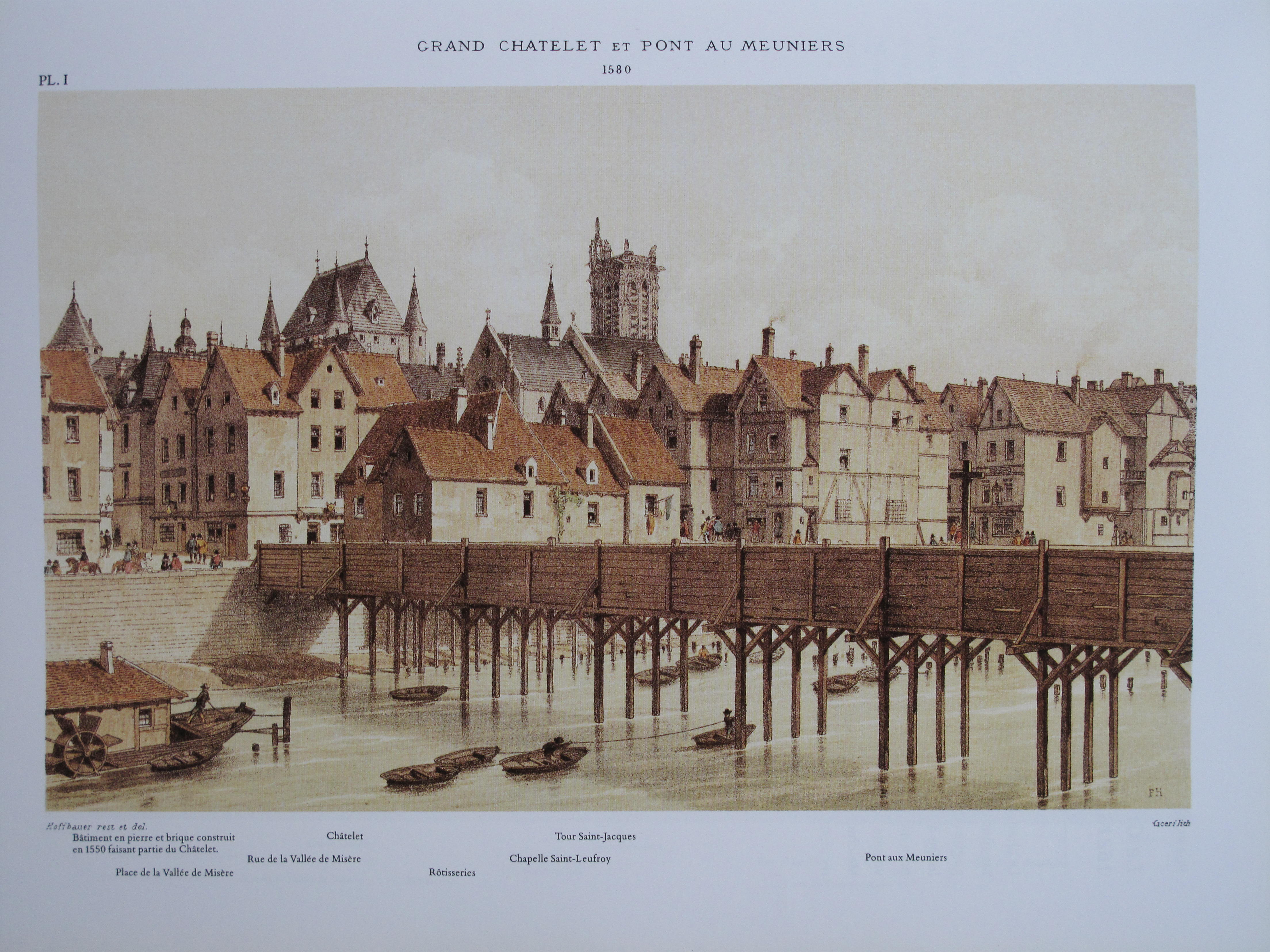 The pont aux Meuniers (=mills bridge) between the île de la Cité and the right bank of Seine river in Paris (France), circa 1580.